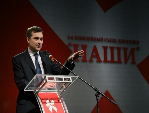 Vladislav Surkov, V Congress of the youth movement NASHI